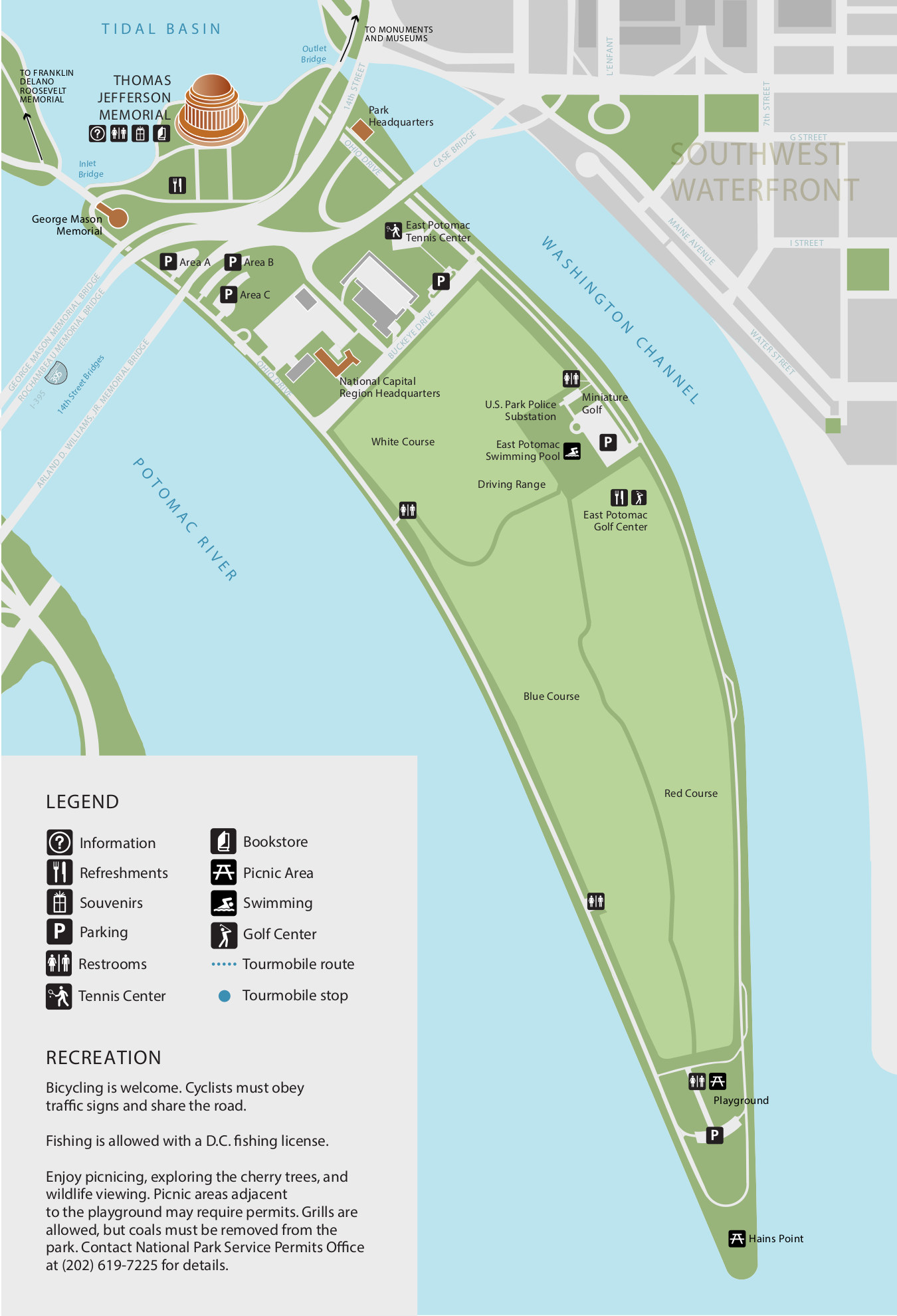 East Potomac Park map, showing the park located south of the Thomas Jefferson Memorial that leads to Hains Point.